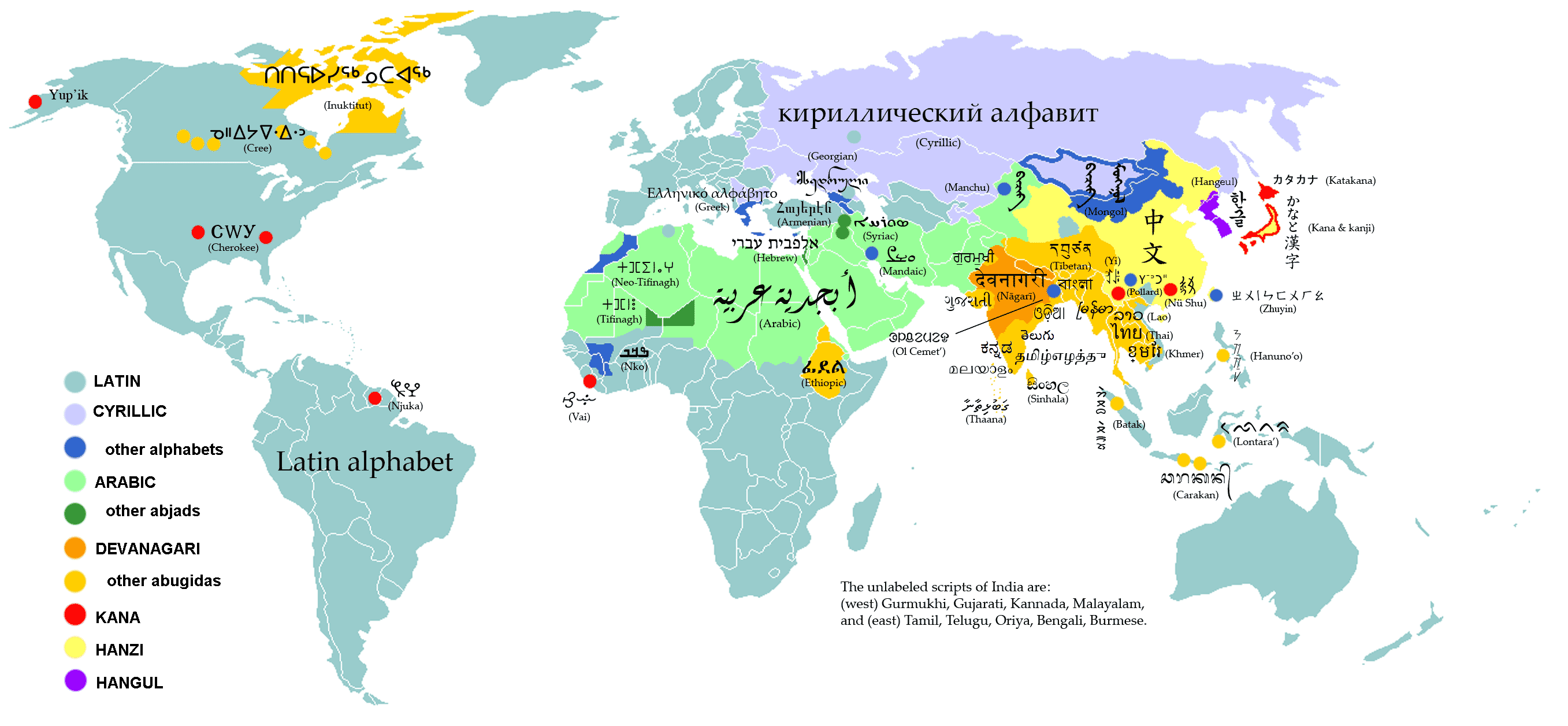 This is a map which shows the distribution of all writing systems in the world.